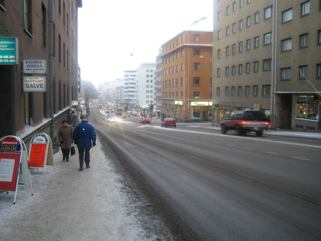 The eastern end of Aninkaistenkatu in Turku, Finland